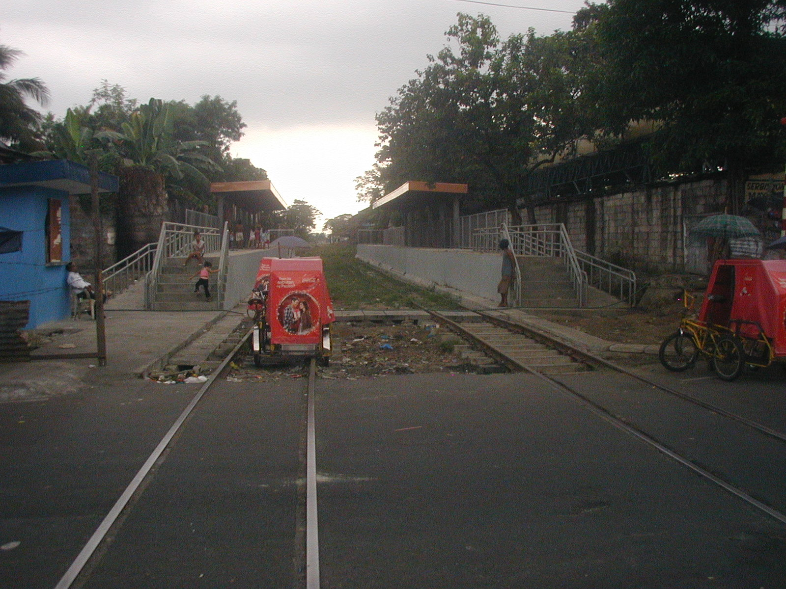 Platform area of the PNR 10th Avenue Station.